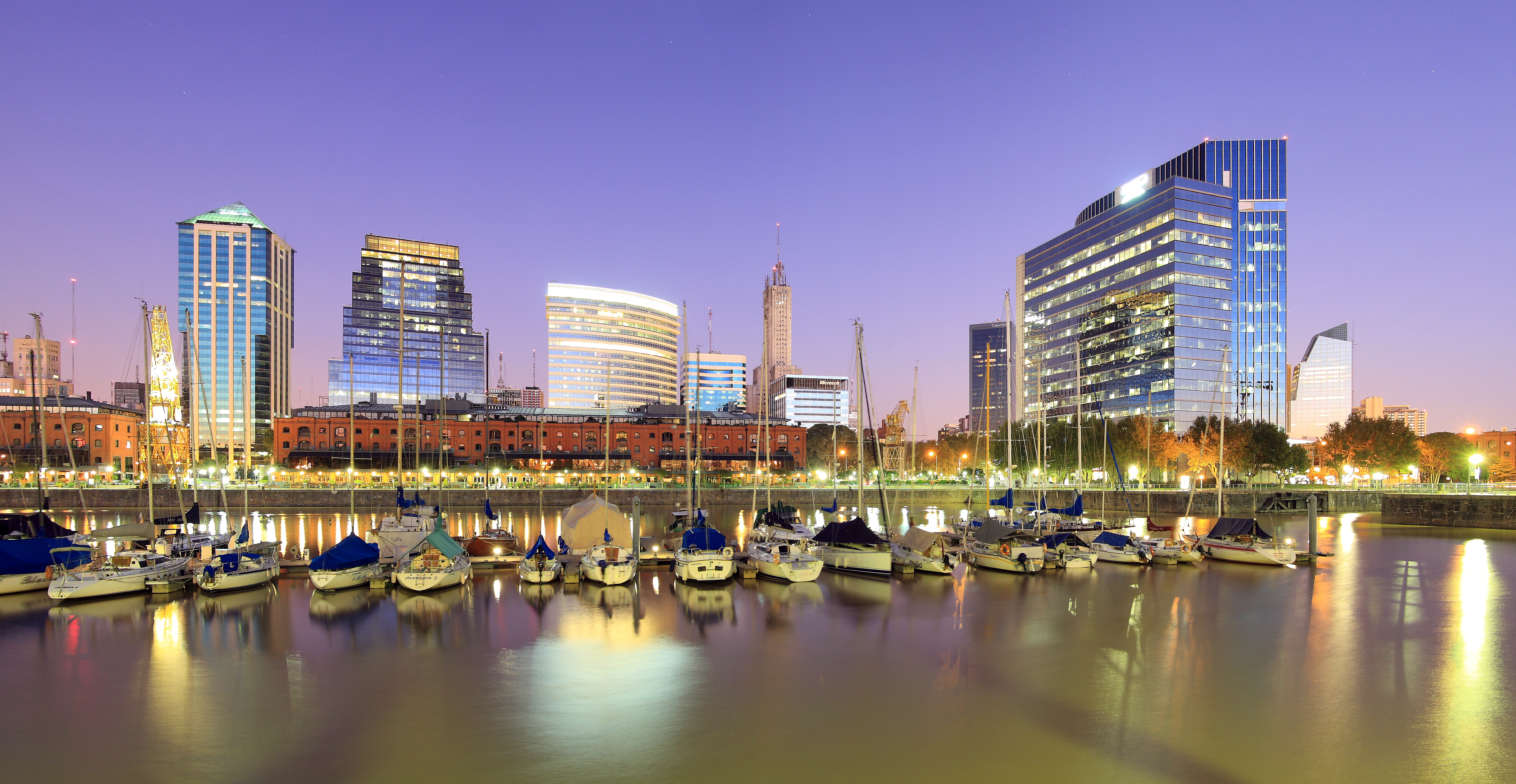 Buenos Aires Cityline at Night